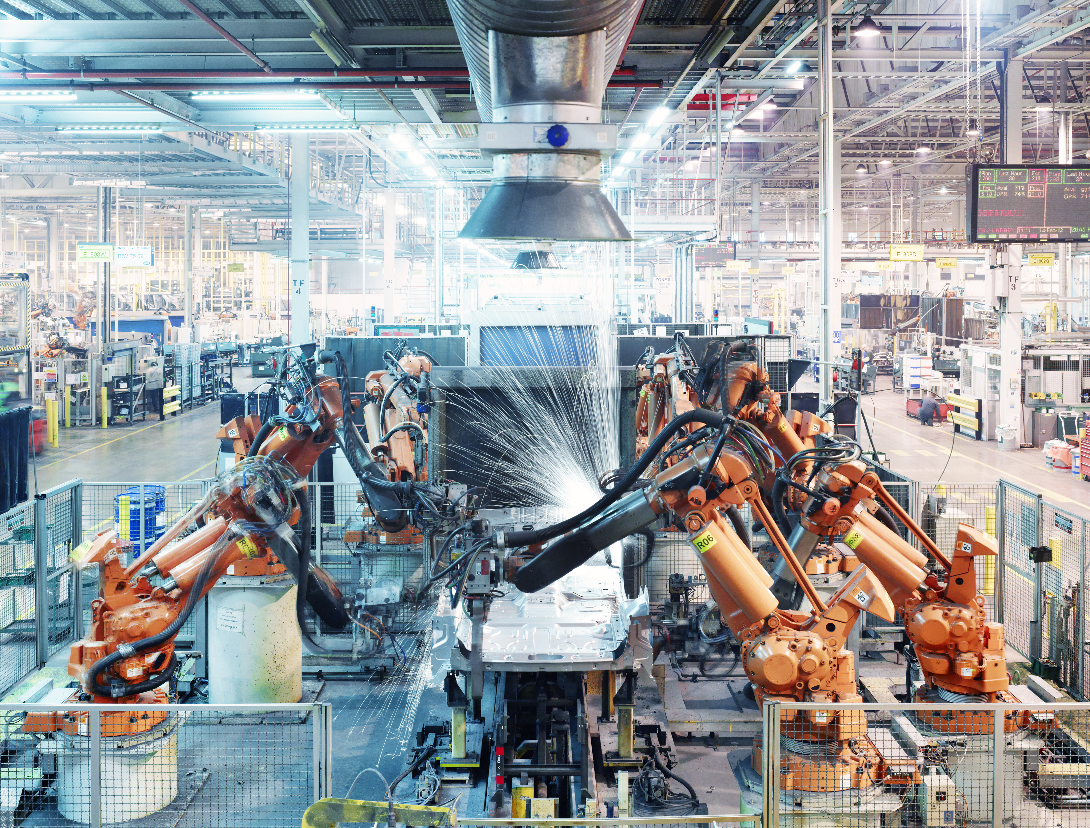 1m_discoverybuild_solihull_05